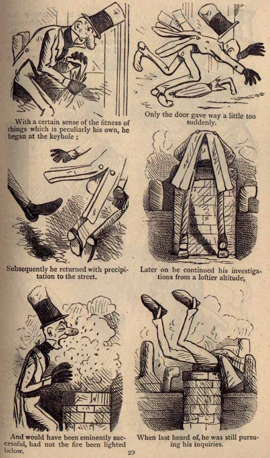 20091227165412!AllySloper